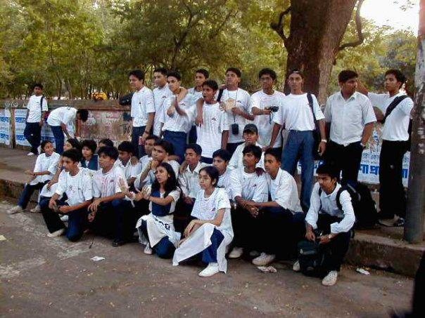 Students of Udayan